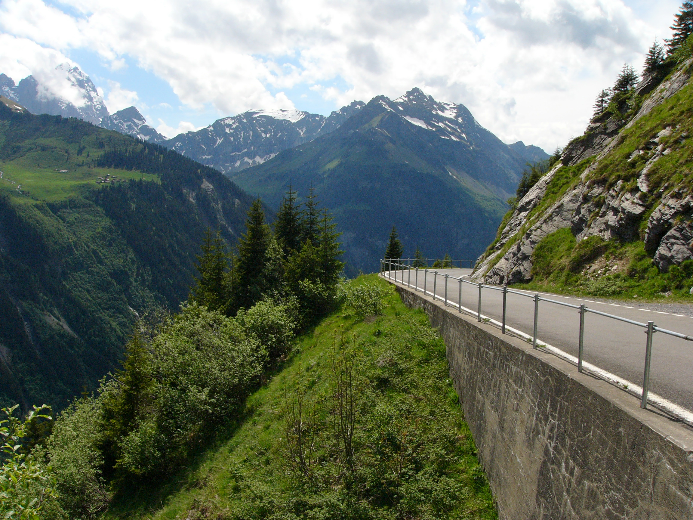 Klausen Pass (el. 1948 m.) is a high mountain pass in the Swiss Alps connecting the cantons of Uri and Glarus.